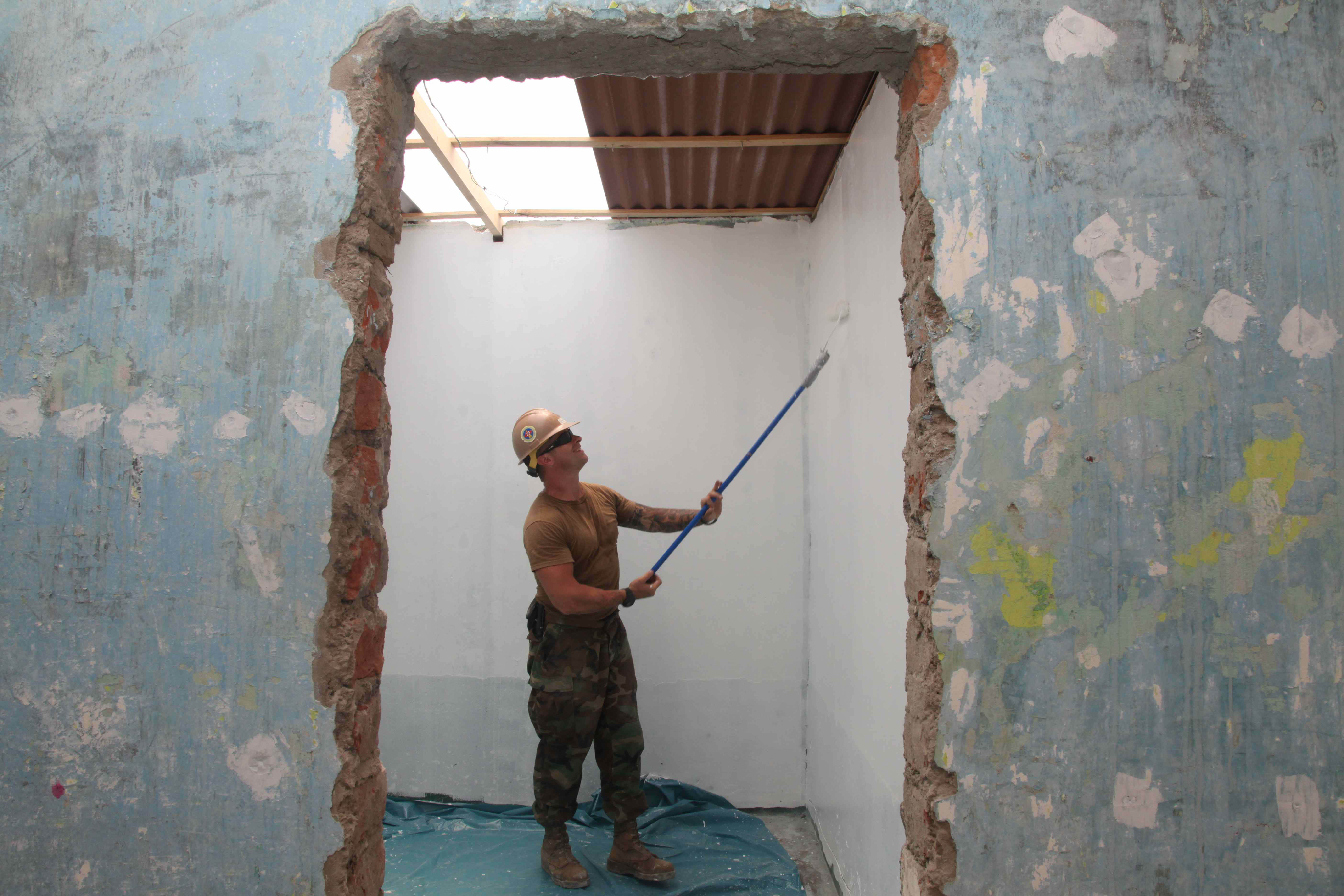 CALLAO, Peru (Feb. 1, 2012) Steelworker 2nd Class Barron Montowski, a Seabee assigned to Naval Mobile Construction Battalion (NMCB) 23, embarked aboard High Speed Vessel (HSV-2) Swift, re-paints a wall in Escuela Pronoie Nuevo Despertar Mis Primeros Pasitos in Zona De Acapulco. NMCB-23 is working with Peruvian combat engineers from Base Naval De Callao and Brigada Infanteria De Marina De Ancon during HSV-Southern Partnership Station 2012. The Seabees and engineers will spend three weeks refurbishing schools in the area. Southern Partnership Station is an annual deployment of U.S. Navy ships and assets to the U.S. Southern Command area of responsibility in the Caribbean, Central and South America. (U.S. Army photo by Spc. Jennifer Grier/Released)